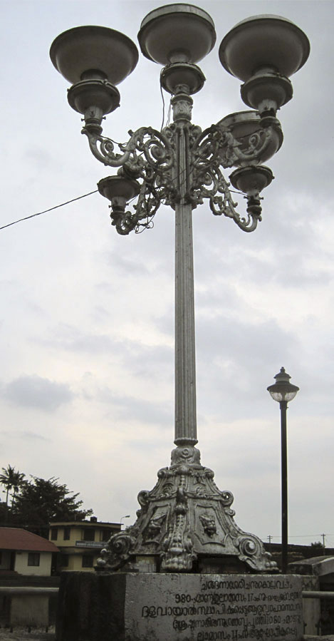 അഞ്ചു വിളക്കിന്റെ പട്ടണം Anchu Vilakku, Changanacherry ,Kottyam It is situated near Boat Jetty and west end of Changanacherry market. It is inaugurated by The Dhalawa Velu Thampi in the Emperor of Balarama Varma in 1805 during opening ceremony of famous Changanacherry market. The first selling material is an Elephant.... :) The lamp signifies the 'unity in diversity' of the local ethnic and religious sects - a truly fitting tribute to the ethos of Changanacherry. The town was therefore called Anchu Vilakkinte Pattanam (അഞ്ചു വിളക്കിന്റെ പട്ടണം ) in local language, meaning Town of Five Fire Lamps, which symbolizes unity and points to its heyday as an entrepot.